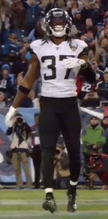 Tre Herndon 2019. Big Man Score | Touchdown Tuesday, ~ 00:09